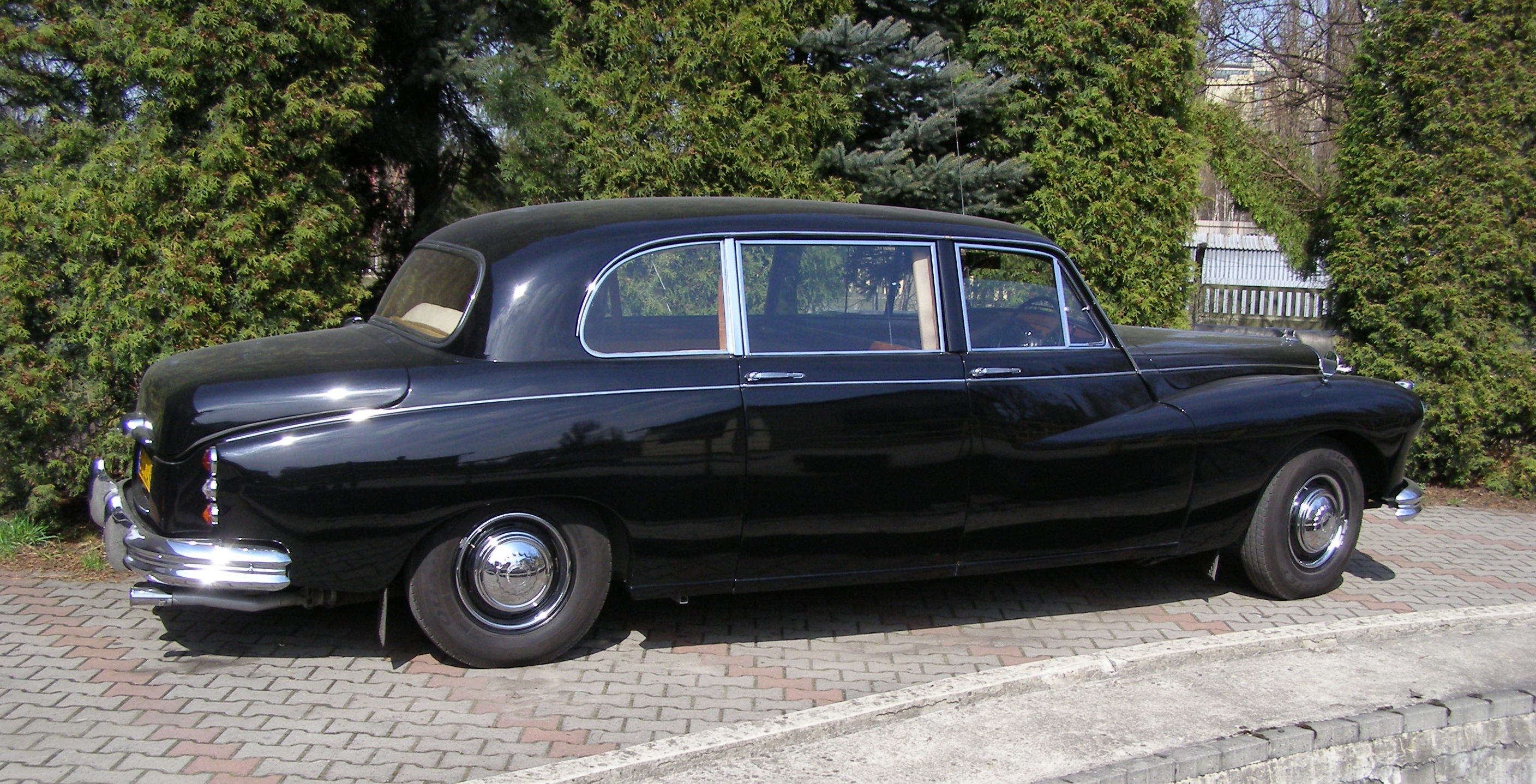 Zabrze - Muzeum of Antique Vehicles of the Silesian Motor Club - a 1966 Daimler Majestic Major